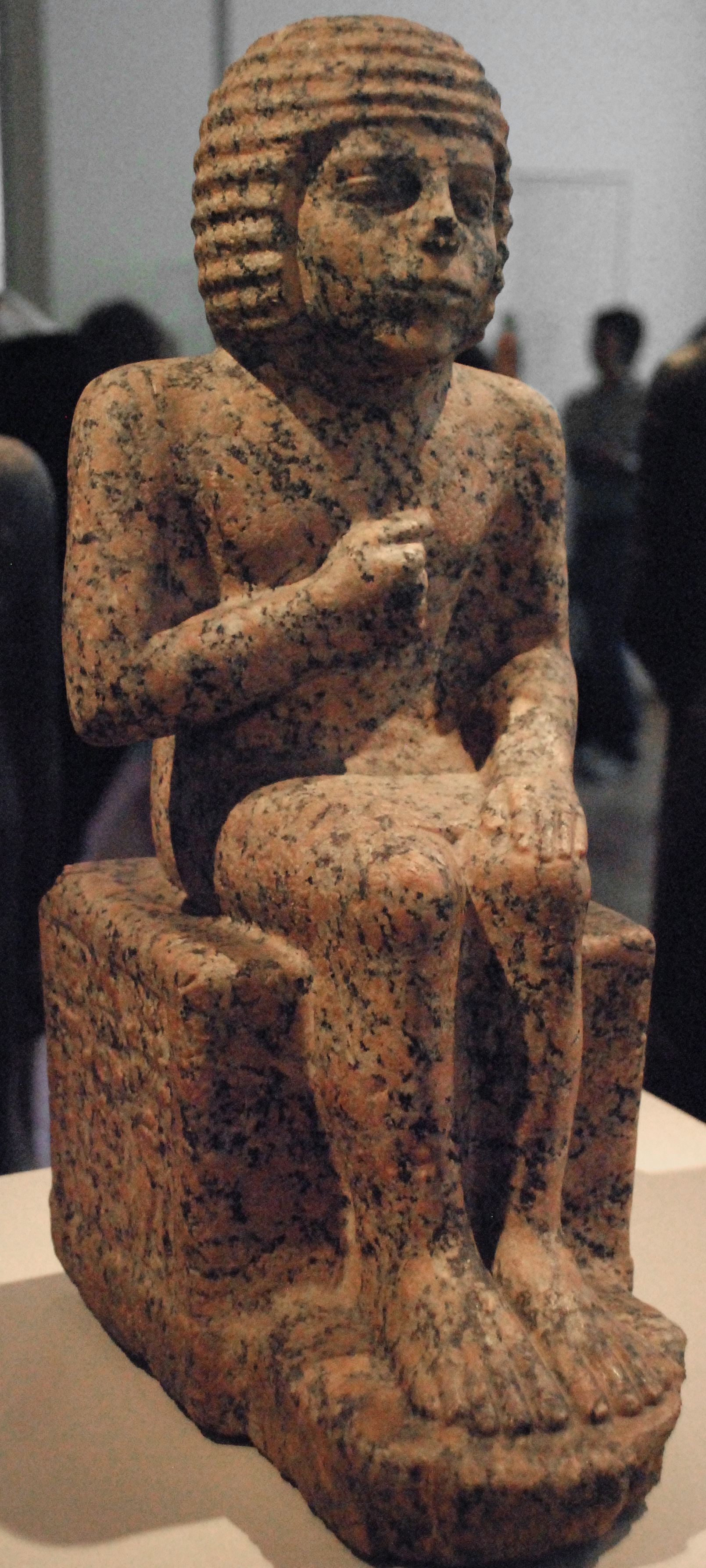 Seated figure of the district governor of Metjen